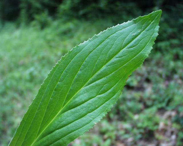 (en)Big-flowered Foxglove Digitalis grandiflora, a photography originating of the internet site The accord of the autor, H. Brisse, is here. (fr) Digitale à grande fleur (Digitalis grandiflora), une photographie issue du site internet L'accord de l'auteur, H. Brisse, se situe ici. (de)Blaßgelber Fingerhut, (it)Digitale gialla grande